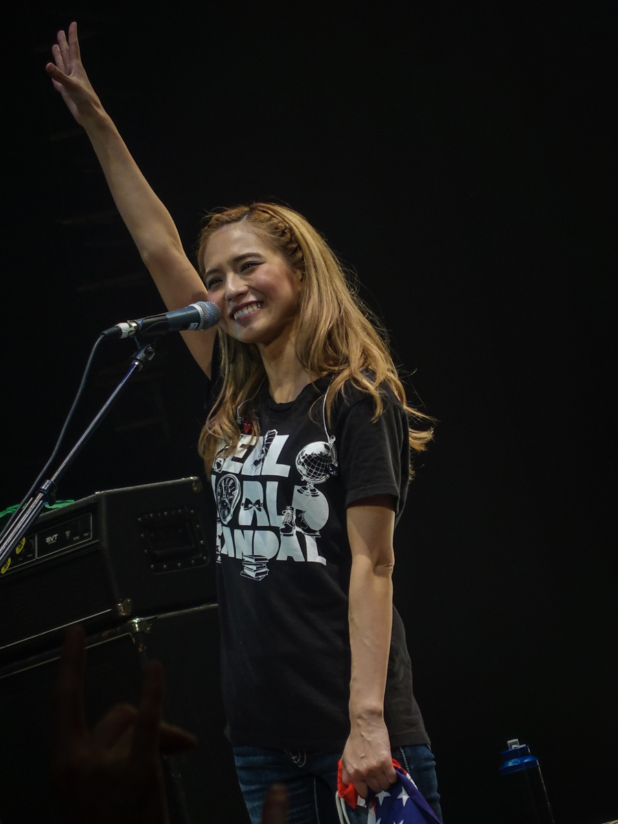 SCANDAL